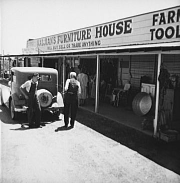 Outskirts of Fresno, California. On U.S. 99. Many small second hand businesses and stores on U.S. 99. 1939